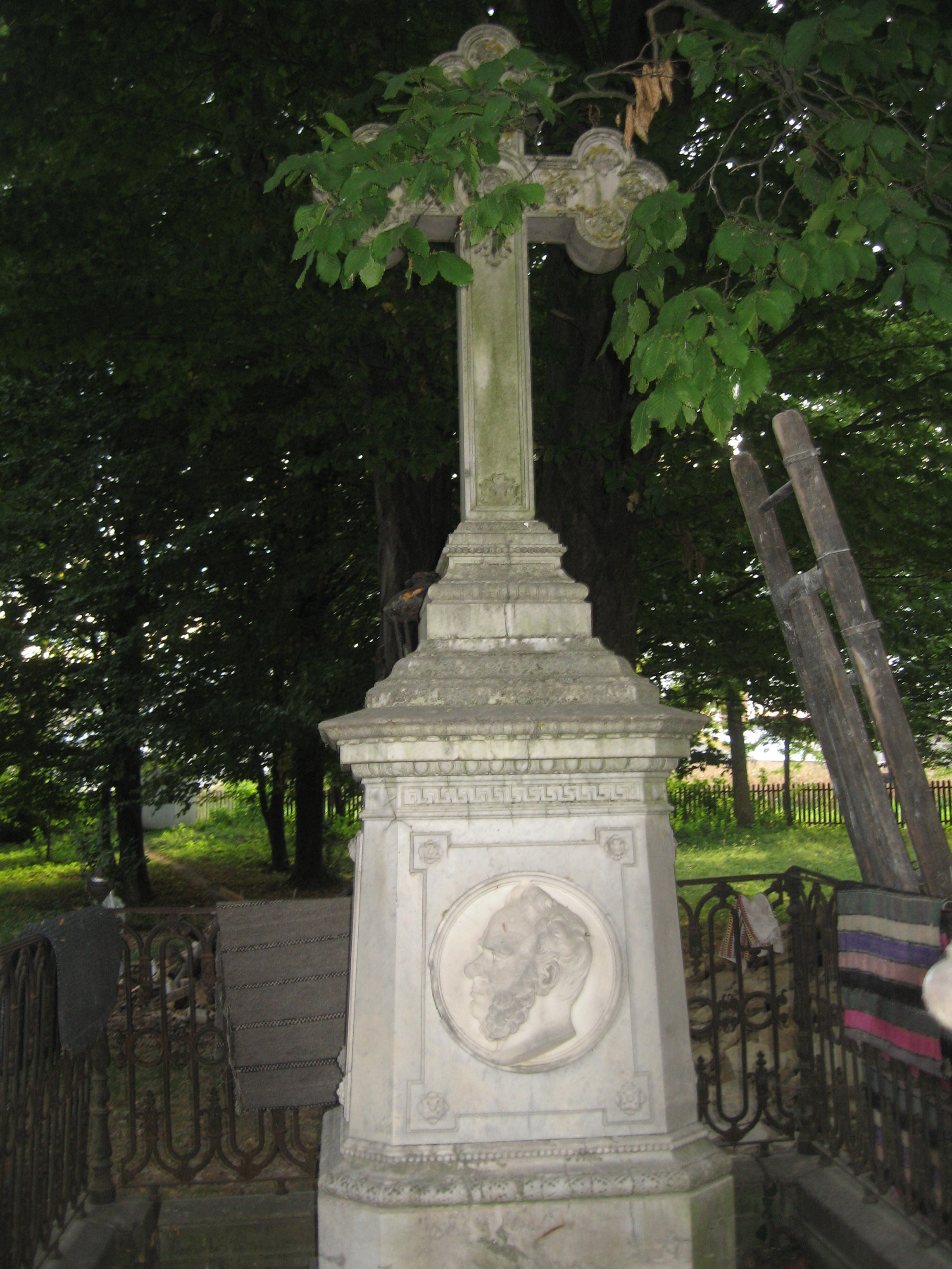 Biserica Adormirea Maicii Domnului din Zvoriștea